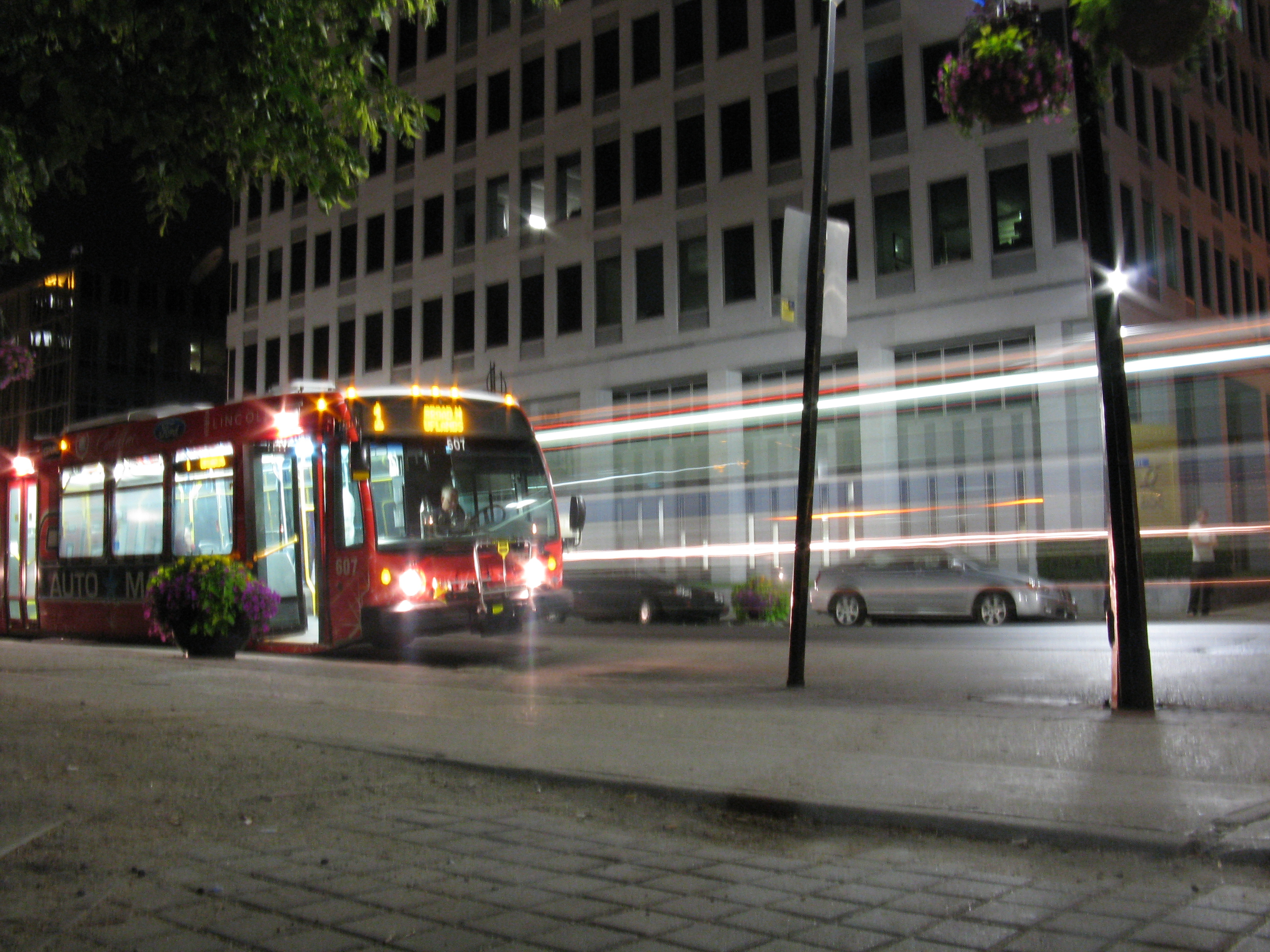 Buses in downtown, Regina, Saskatchewan